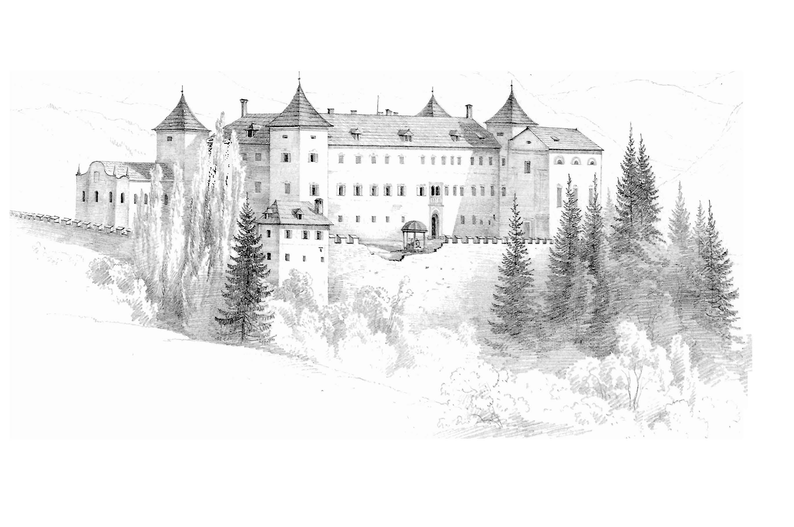 Pencil drawing by Pernhart Markus (*1824, †1871) of castle/monastery Wernberg, situated in the community Wernberg, district Villach-Land, Carinthia, Austria